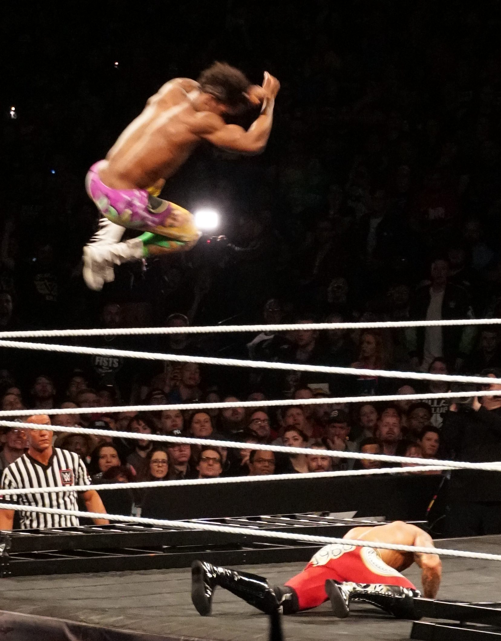 NOLA 2018 - WWE NXT Takeover - New Orleans - Adam Cole Vs EC3, Killian Dain, Lars Sullivan, Ricochet, The Velveteen Dream Adam Cole def. EC3, Killian Dain, Lars Sullivan, Ricochet, The Velveteen Dream (in 31:16) Type of match : ladder (6-way) For : NXT North American Championship (title change) Rating : ***** ( Deux semaines a Nola pour la ville et pour WWE Wrestlemania XXXIV Two weeks Nola for the city and for WWE Wrestlemania XXXIV )